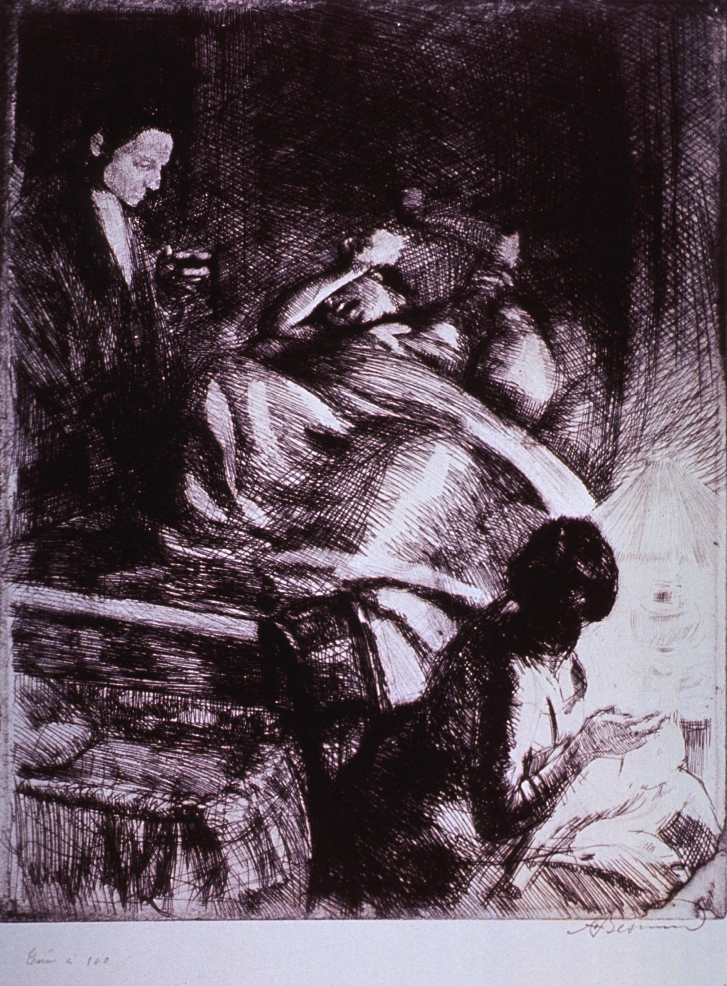 Author(s): Besnard, Paul Albert, 1849-1934, artist Publication: [191-] Format: Still image Subject(s): Physicians Obstetrics Abstract: Interior of a bedroom: On a bed, a woman in labor cries out in agony as she covers her head with her arms; an empty bassinet is at the foot of the bed; a doctor is standing at bedside, and to the right is a woman sitting in a chair. Extent: 1 print : 40 x 29 cm. Technique: etching NLM Unique ID: 101392812 NLM Image ID: A021193 Permanent Link